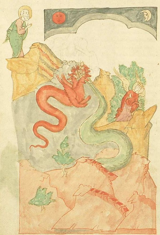 Woman of the Apocalypse fled into the wilderness